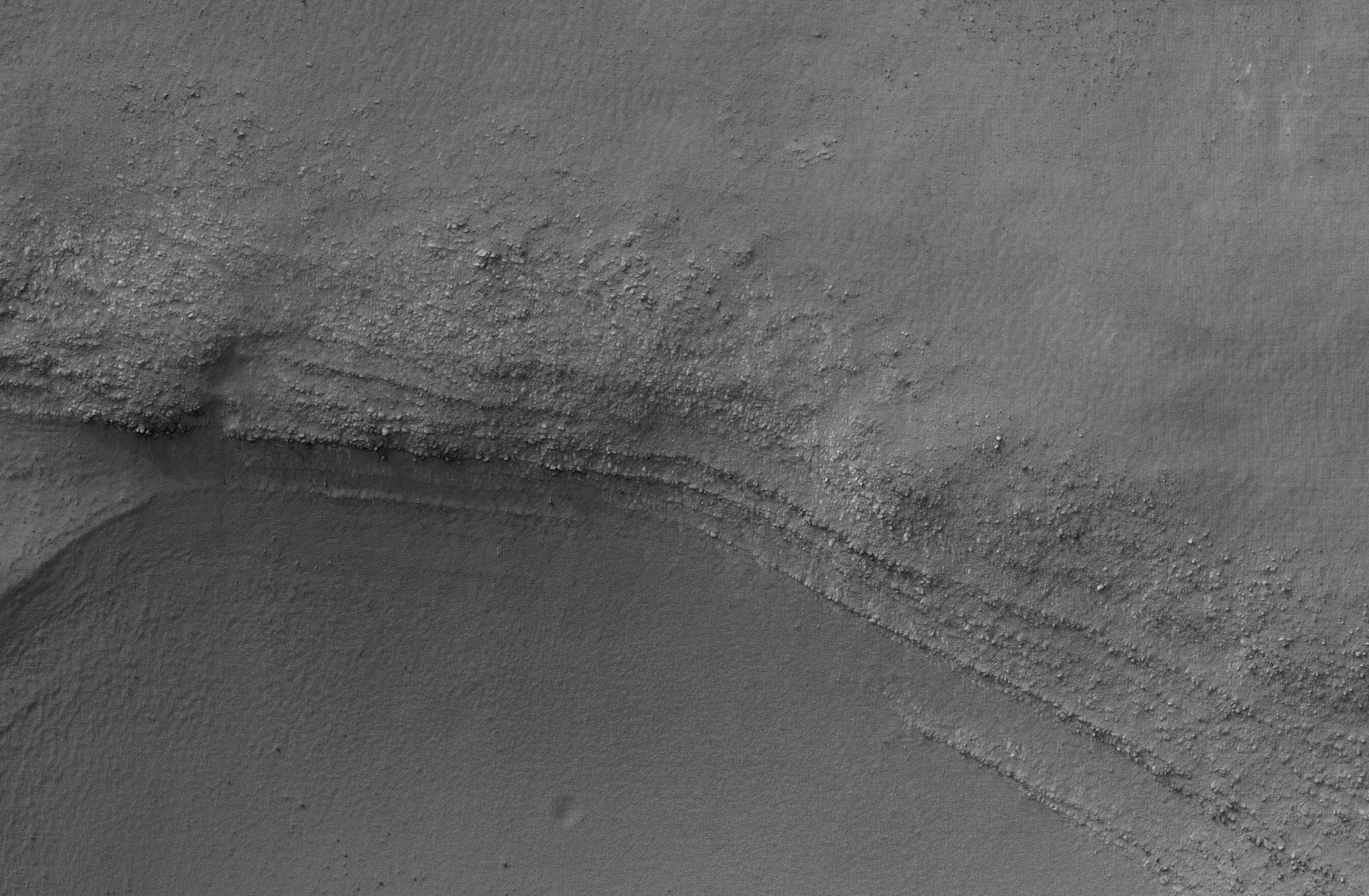 Rocky layers in Charitum Montes on Mars. The image is taken from a much larger observation done by the HiRISE instrument aboard the Mars Reconnaissance Orbiter. Image resolution is 25.3 cm per pixel.